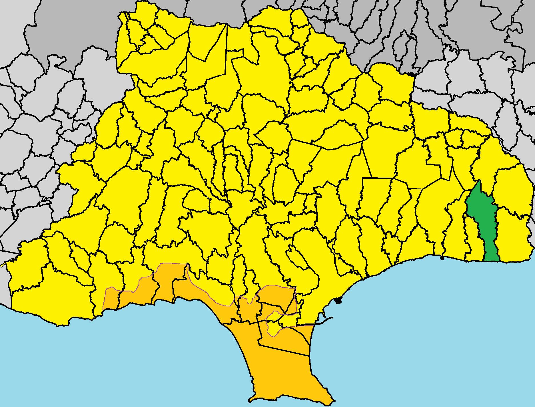 Monagroulli in Limassol District.